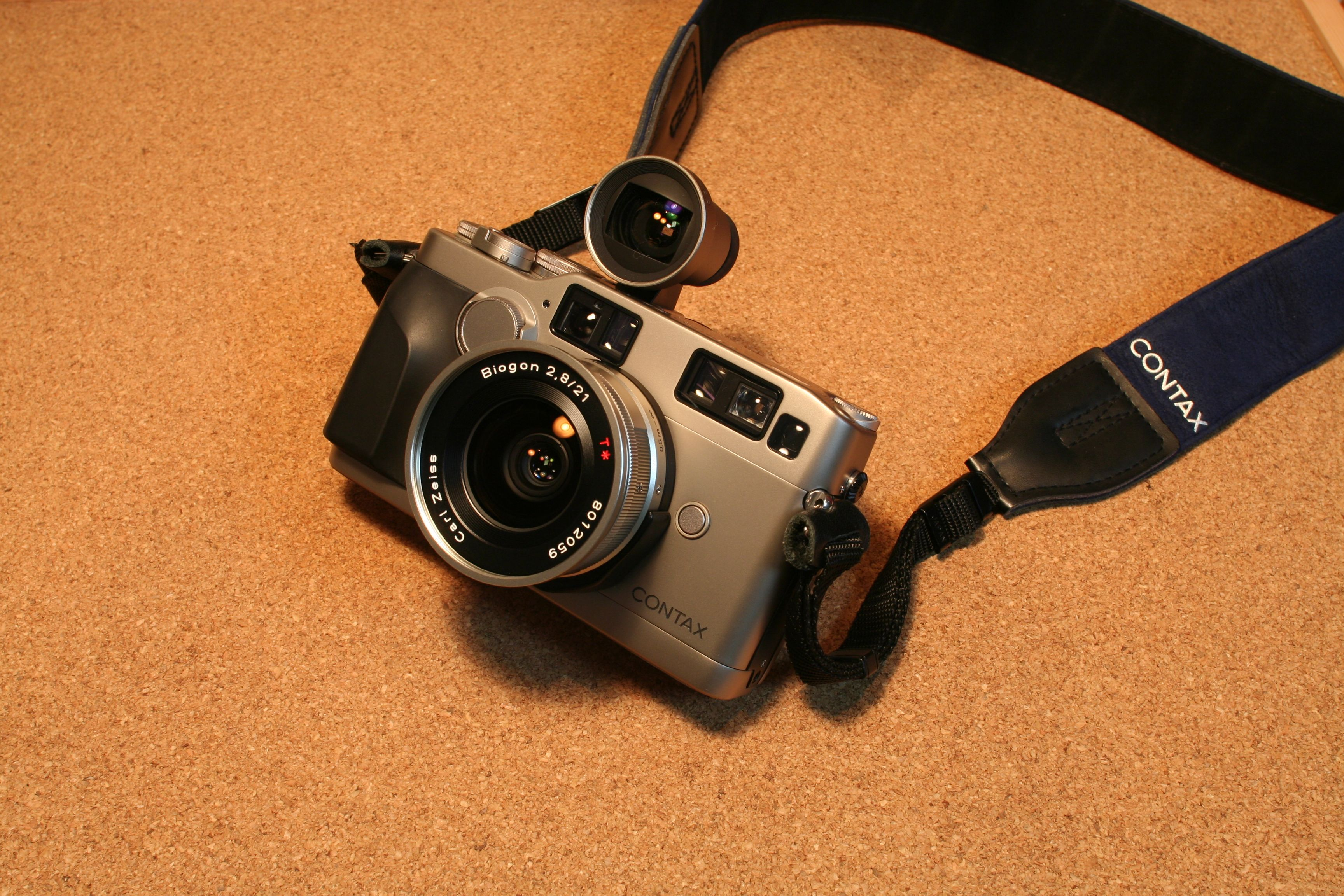 a rangefinder camera by Kyocera